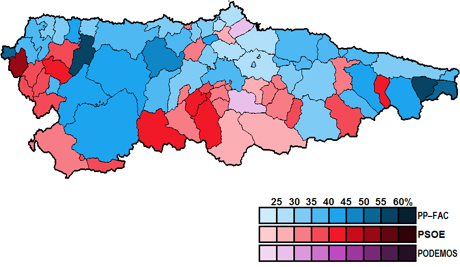 Most-voted party in Asturias municipalities, showing vote share obtained, in the Spanish general election, 2015.